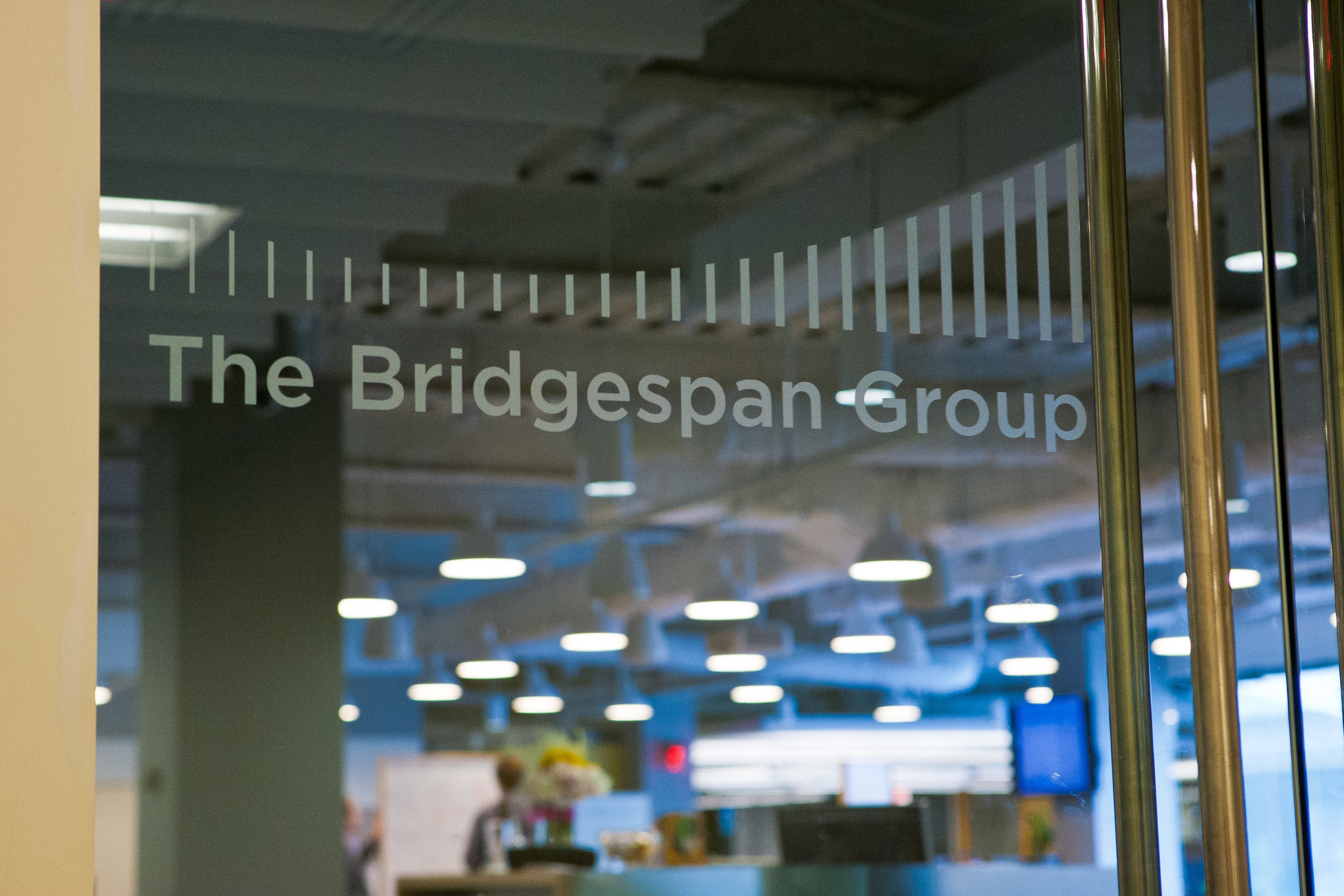 This is a photo of the front door of The Bridgespan Group's home office in Boston. Bridgespan Group